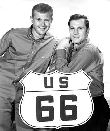 Martin Milner (left) and George Maharis in this photo as the press release of Route 66. It was stamped several times; first stamped on February 11, 1963. According to press note, the third season premiered on September 21, 1962.